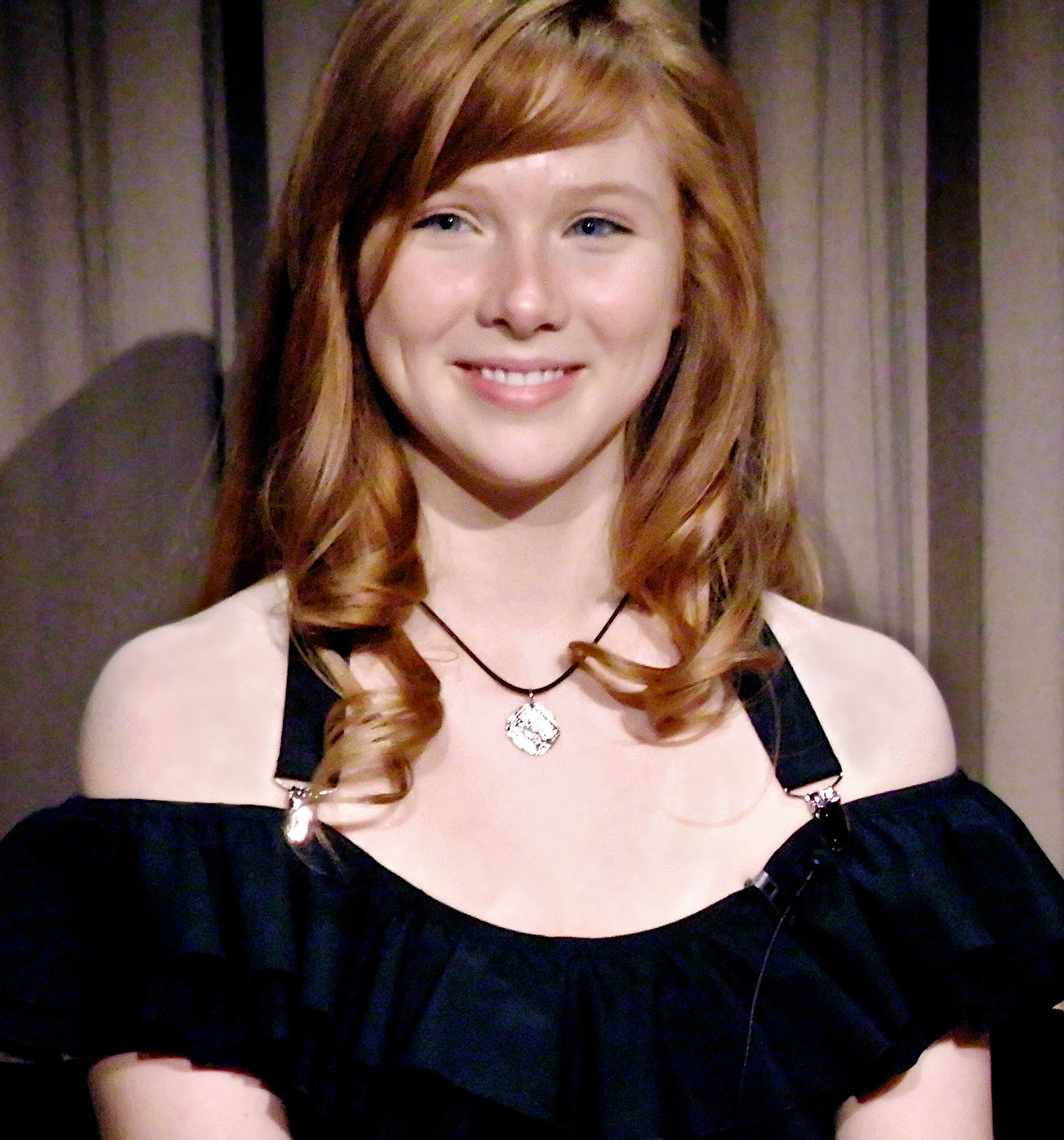 Actress Molly Quinn during "An Evening with Castle" at the Paley Center for Media